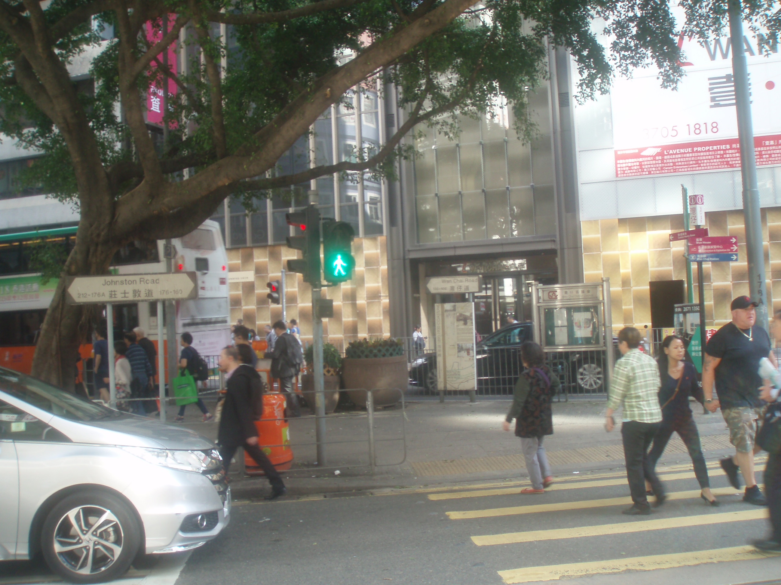 The intersection of Johnston Road near Wan Chai Road on Hong Kong Island, Hong Kong.